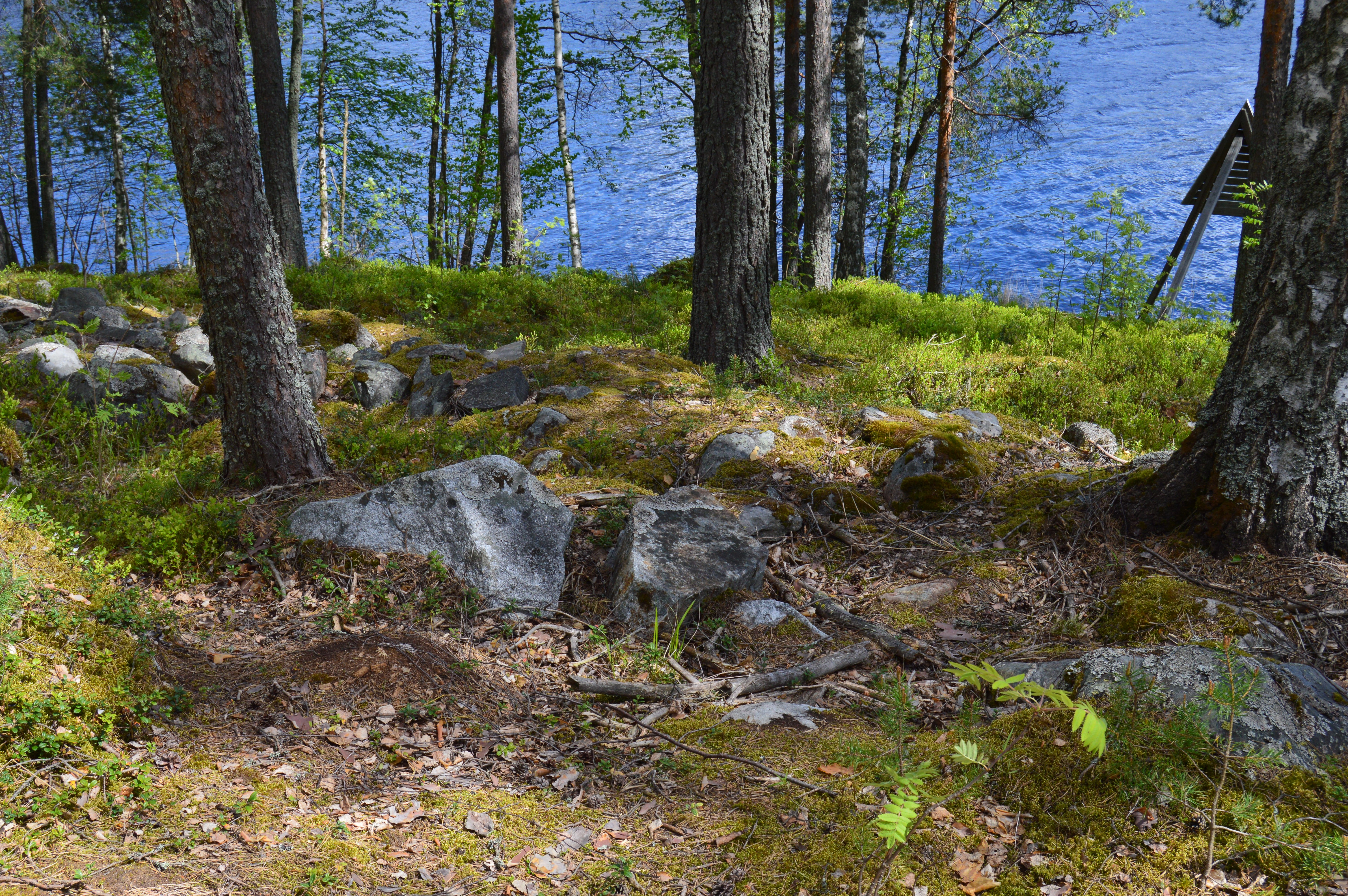 The remains of a medieval fortress called Orivirran saarto in Savonranta, Finland.